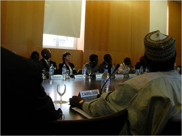 Negotiating of the Gorilla Agreement, Paris, October 2007.